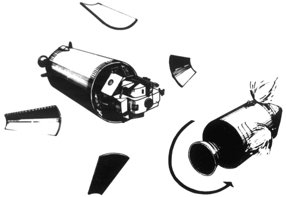 Apollo 11 flight, artist concept. (3) Panels housing the LM are jettisoned and the CM turned 180 degrees in a transposition maneuver